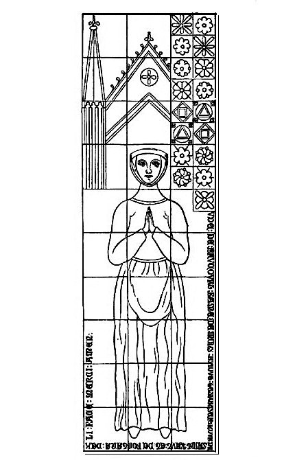 Abbaye Saint-Etienne de Fontenay; Copie du dessin d'une plate-tombe relevé vers 1700